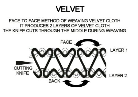 Illustration depicting the manufacture of velvet fabric